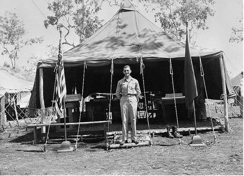 Original caption: "Brigadier General Kenneth N. Walker, commanding general of a bomber command in the Southwest Pacific, who has been reported missing in action after leading a flight against Japanese shipping. This is the most recent photograph of General Walker, taken in front of his tent-office in the field."